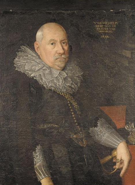 Sotheby's description: Portrait of Duke Wilhelm August of Brunswick and Lüneburg (1564-1632)